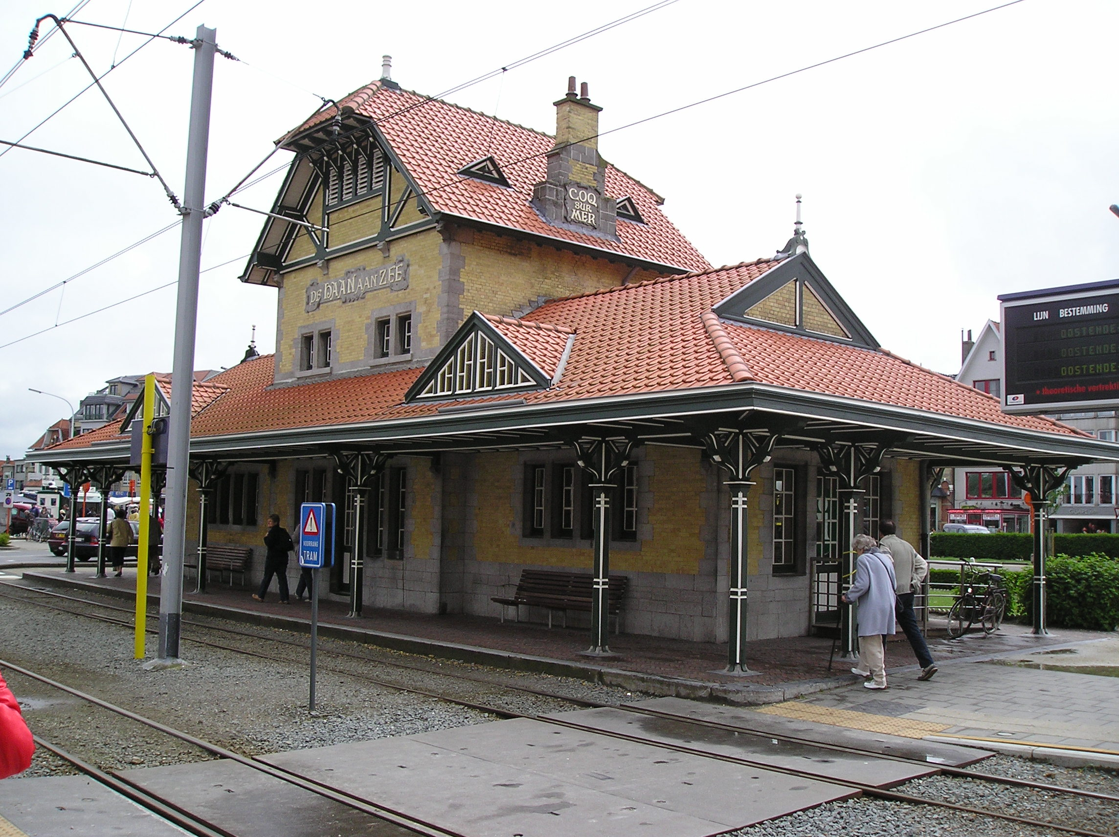 Station of the Coastal tram in the seaside resort town De Haan.